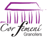 Logo Cor femení de Granollers